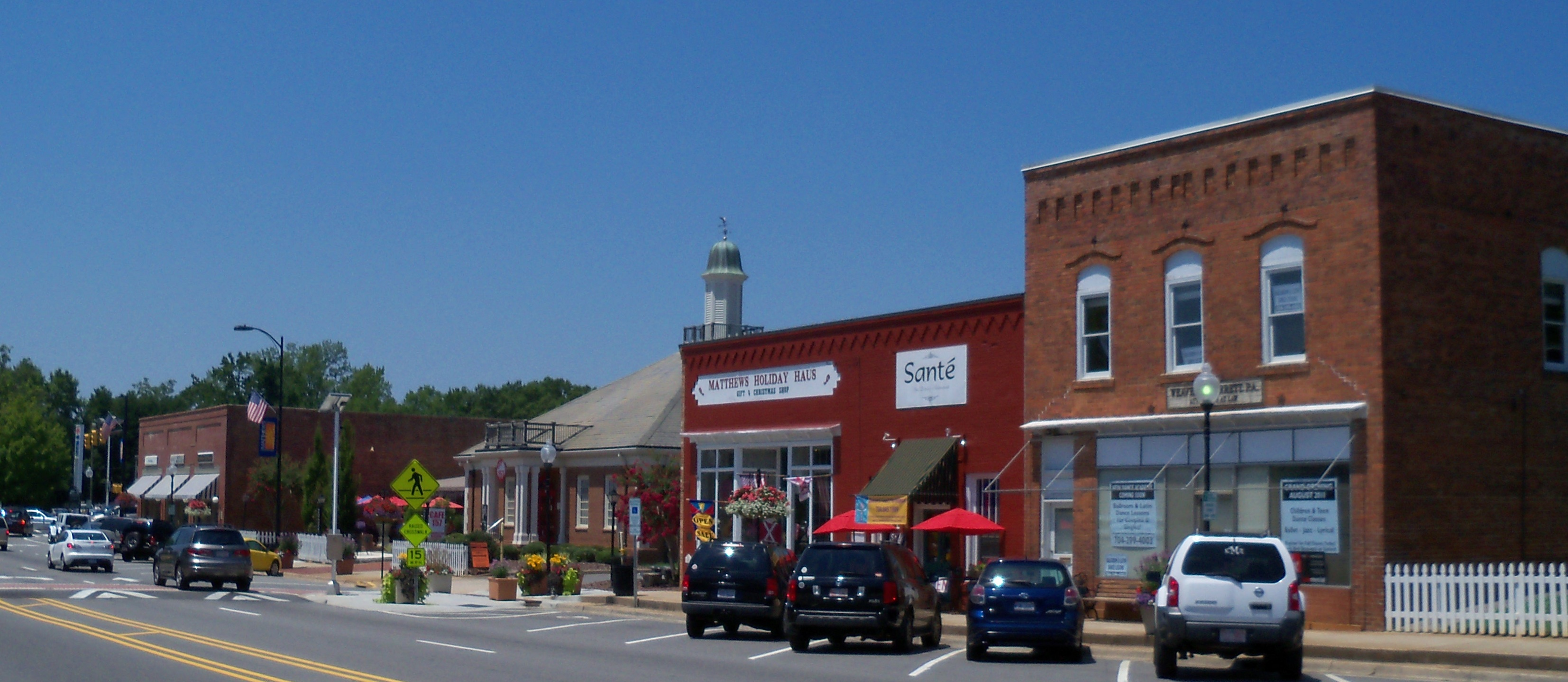 Portion of Trade Street in Downtown Matthews, North Carolina, USA.